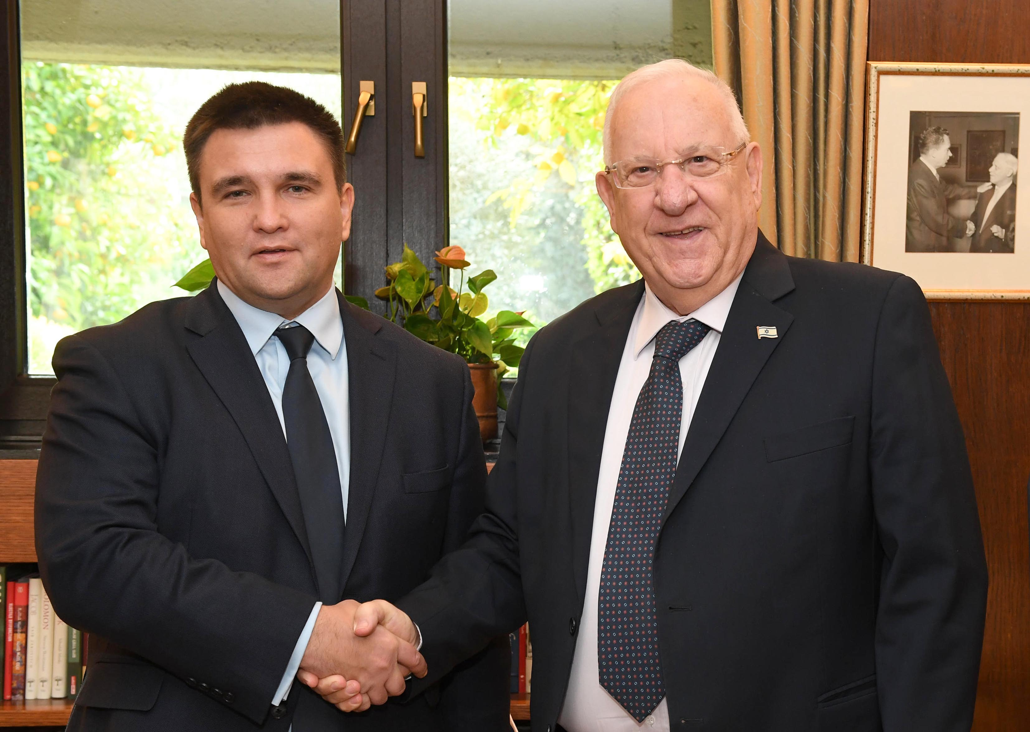 President of the State of Israel, Reuven Rivlin, at a working meeting with the Foreign Minister of Ukraine, Pavlo Klimkin, who is visiting Israel. Monday, November 27, 2017. Photo Credit: Mark Neyman / GPO.